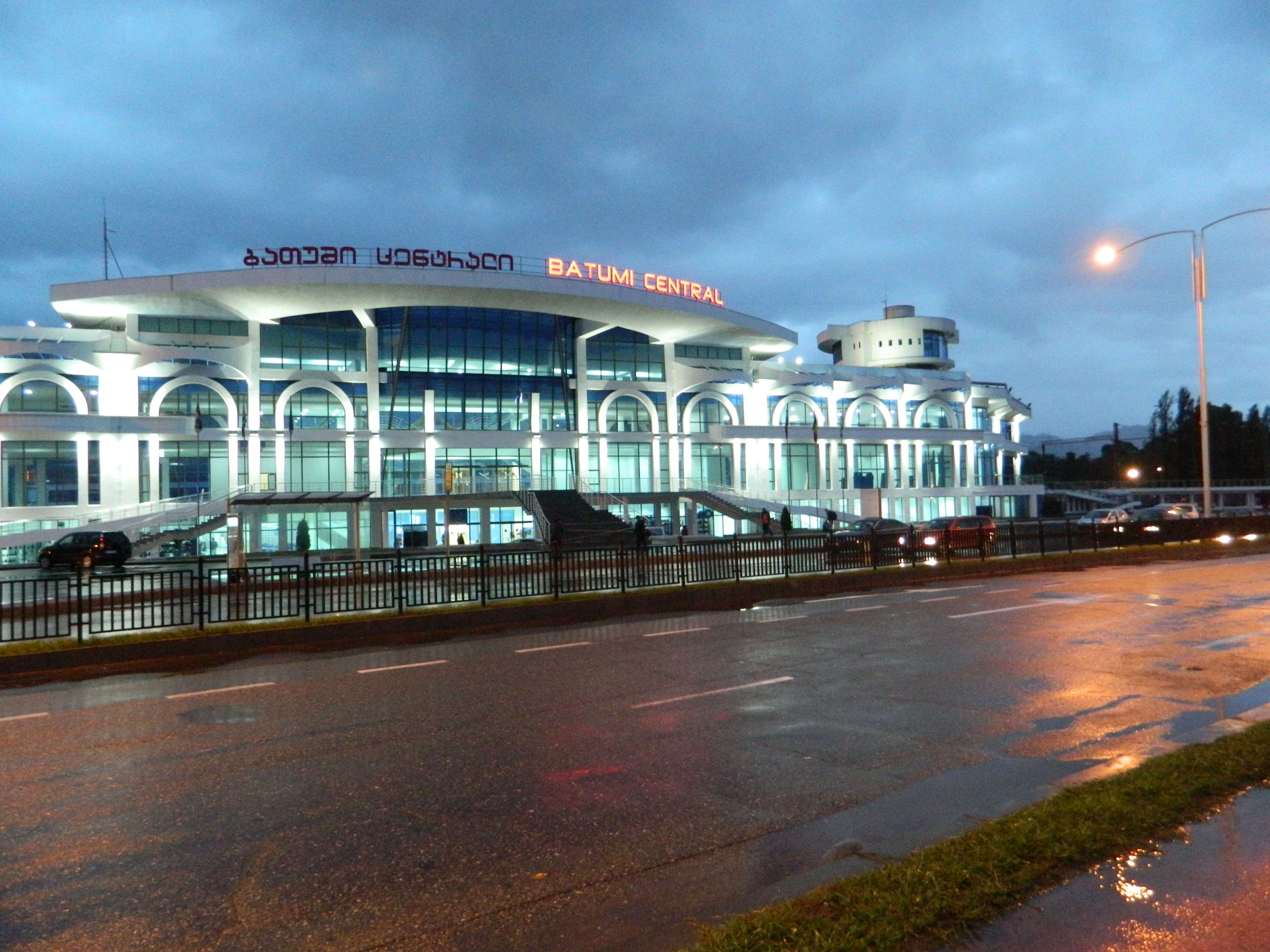 View of Batumi (Georgia) Central Train Station, opened July 2015.